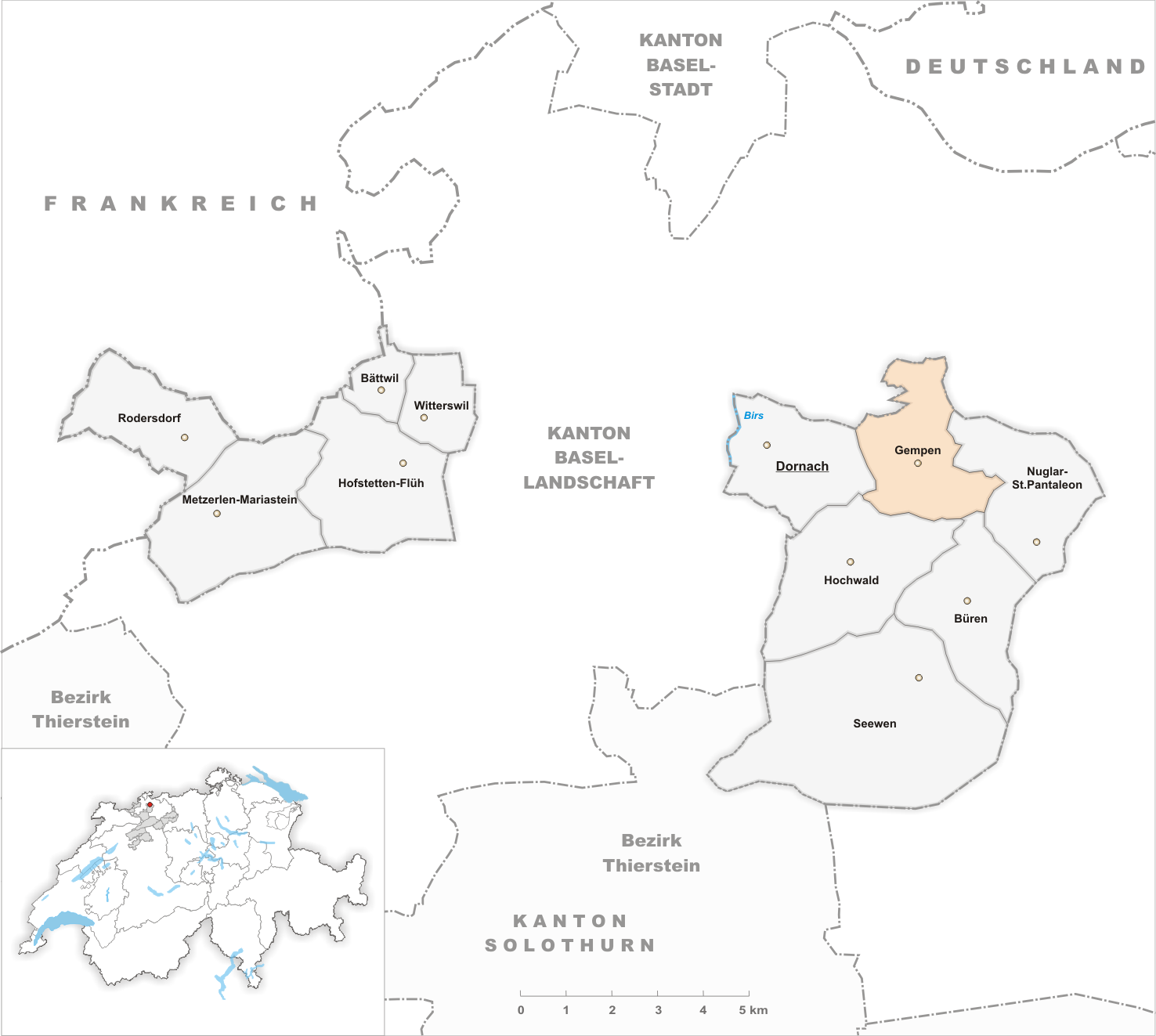 Municipality Gempen